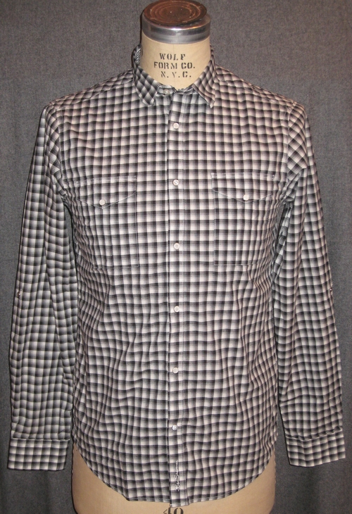 A checked Ben Sherman shirt